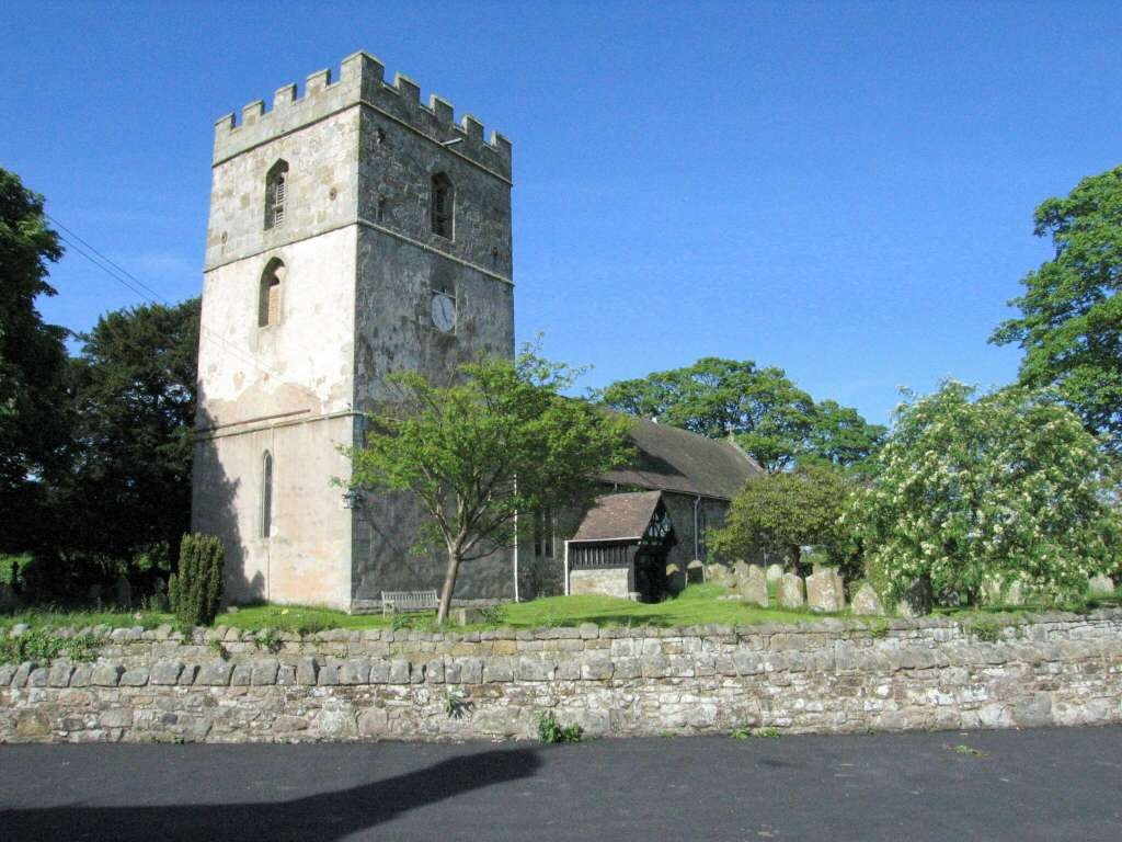 Parish church of St James, Cardington, Shropshire, seen from the southwest